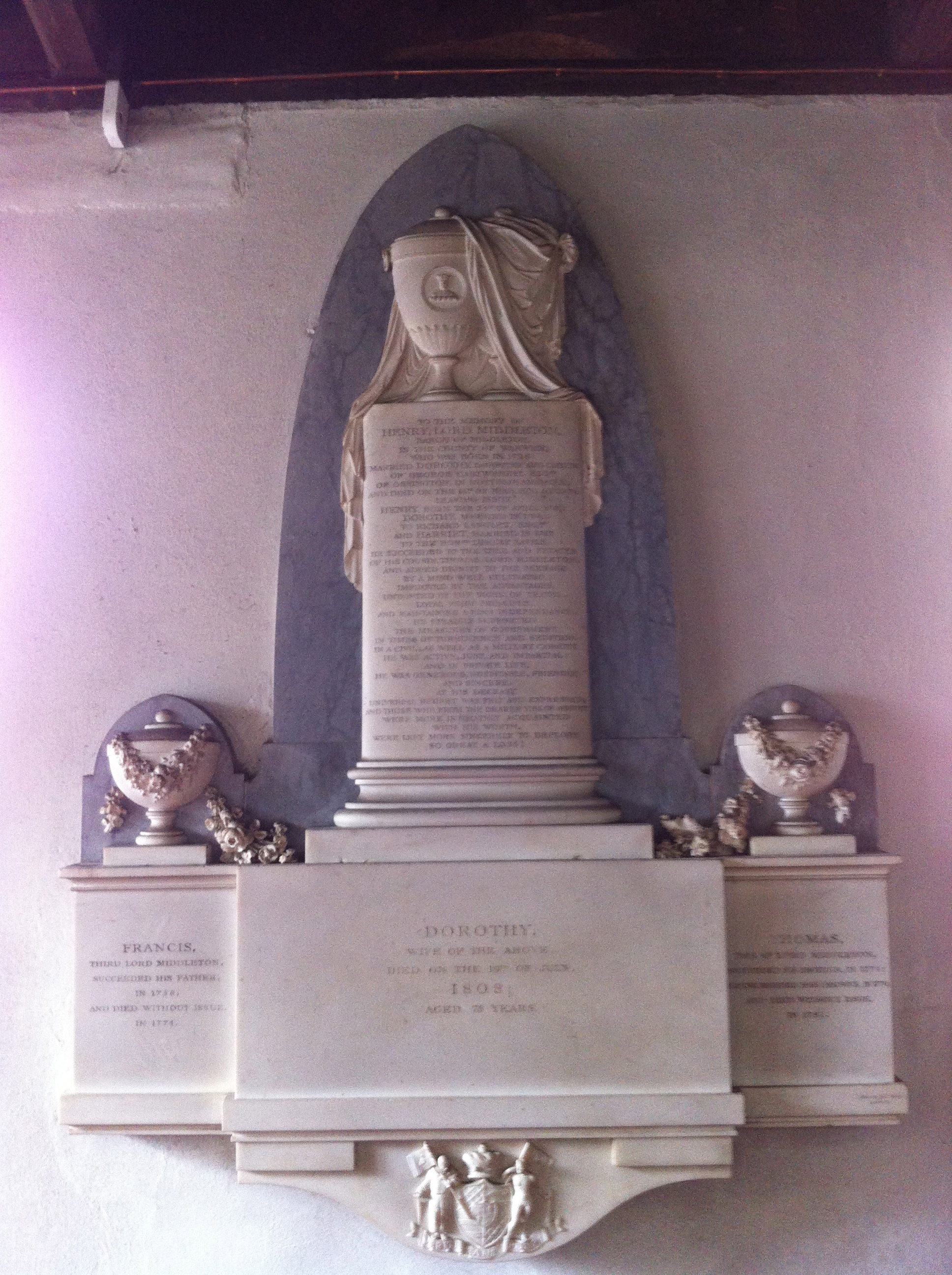 Memorial in St Leonard's Church, Wollaton to Henry, 5th Lord Middleton (d. 1800) by John Bacon